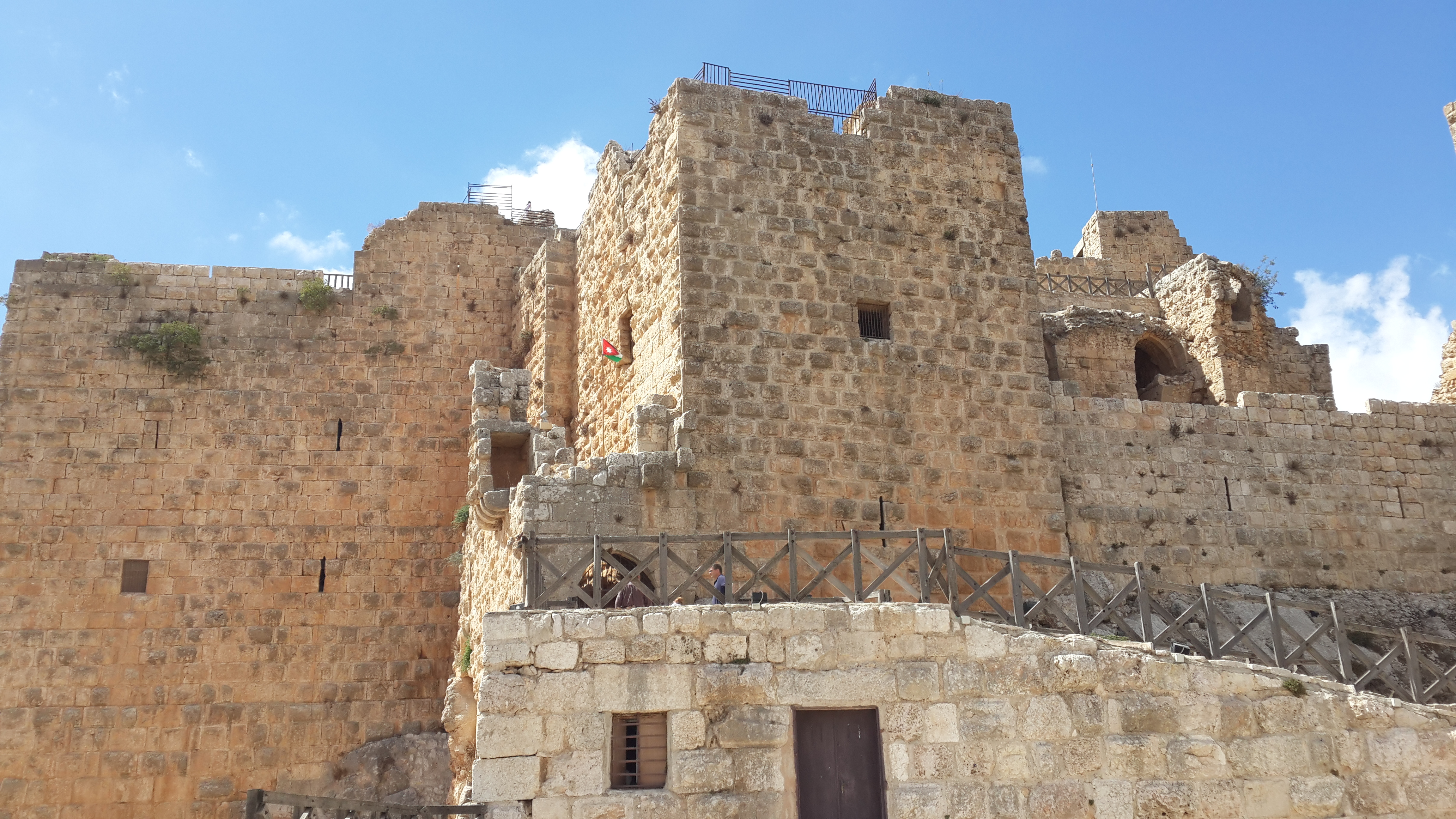 Ar-Rabad Castle (Saladin Castle) in Ajloun, Jordan